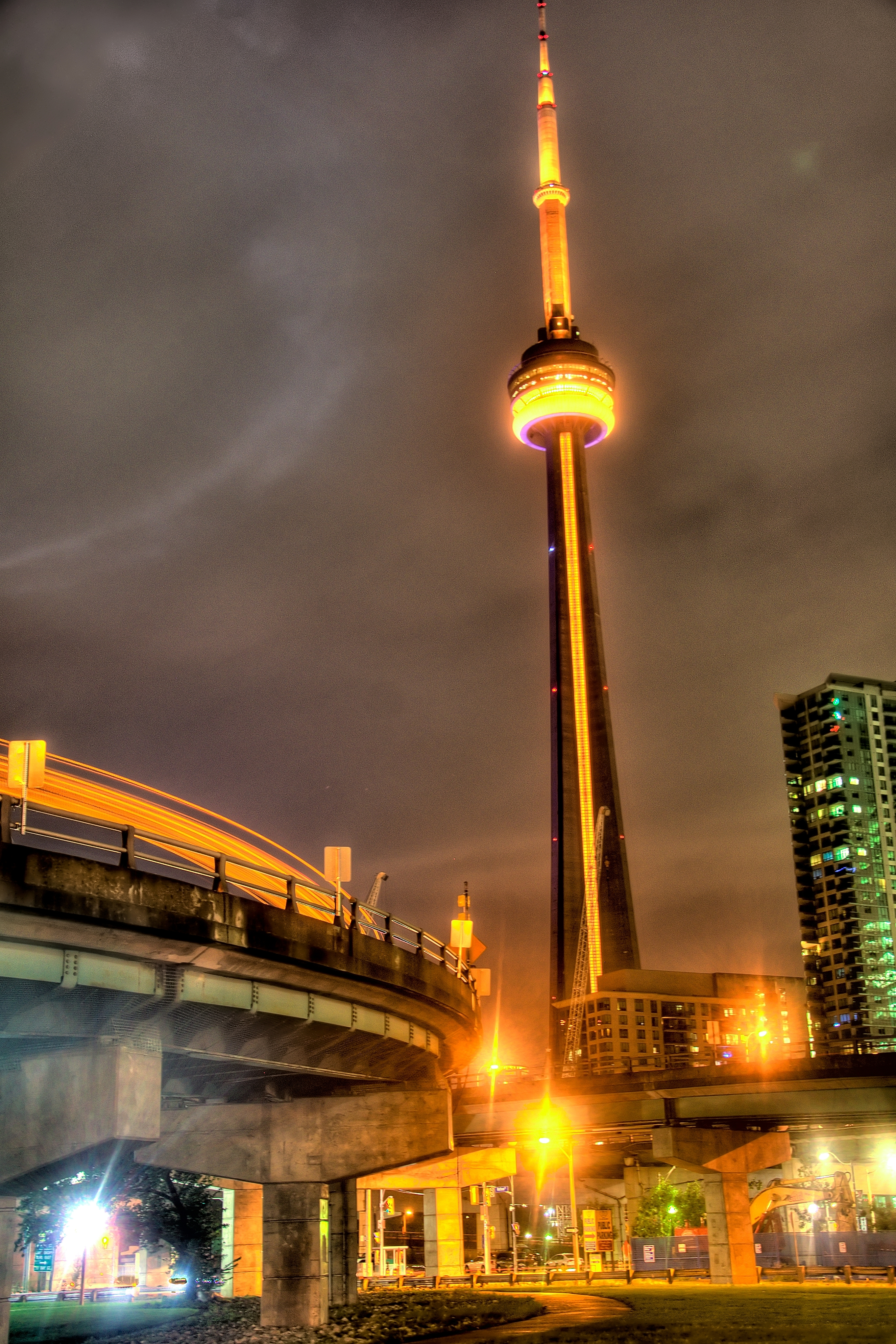 The CN Tower shines orange in honour of Jack Layton, leader of the New Democratic Party, who passed away on Aug. 22, 2011 from a battle against cancer. The outpouring of admiration for him, grief, and love felt for this loss in Toronto and beyond has been very moving and inspiring. He was a rare breed of politician, one who earned the respect of many of us through his genuine dedication to 'doing the right thing'. My friends, love is better than anger. Hope is better than fear. Optimism is better than despair. So let us be loving, hopeful and optimistic. And we’ll change the world. - Jack Layton (1950-2011) ...may he rest in peace.